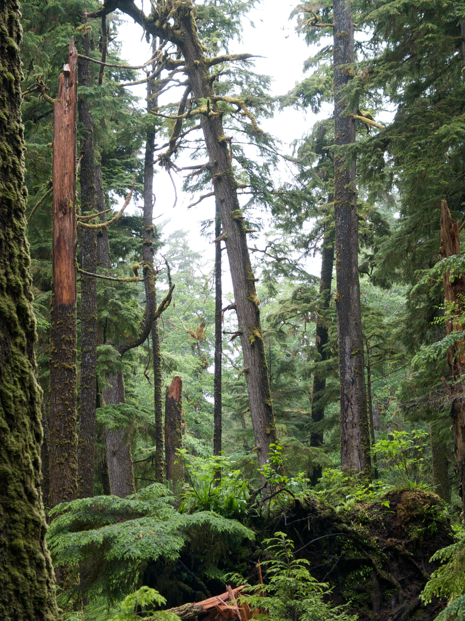 Tsuga heterophylla forest, Windy Bay, Queen Charlotte Islands, British Columbia, Canada